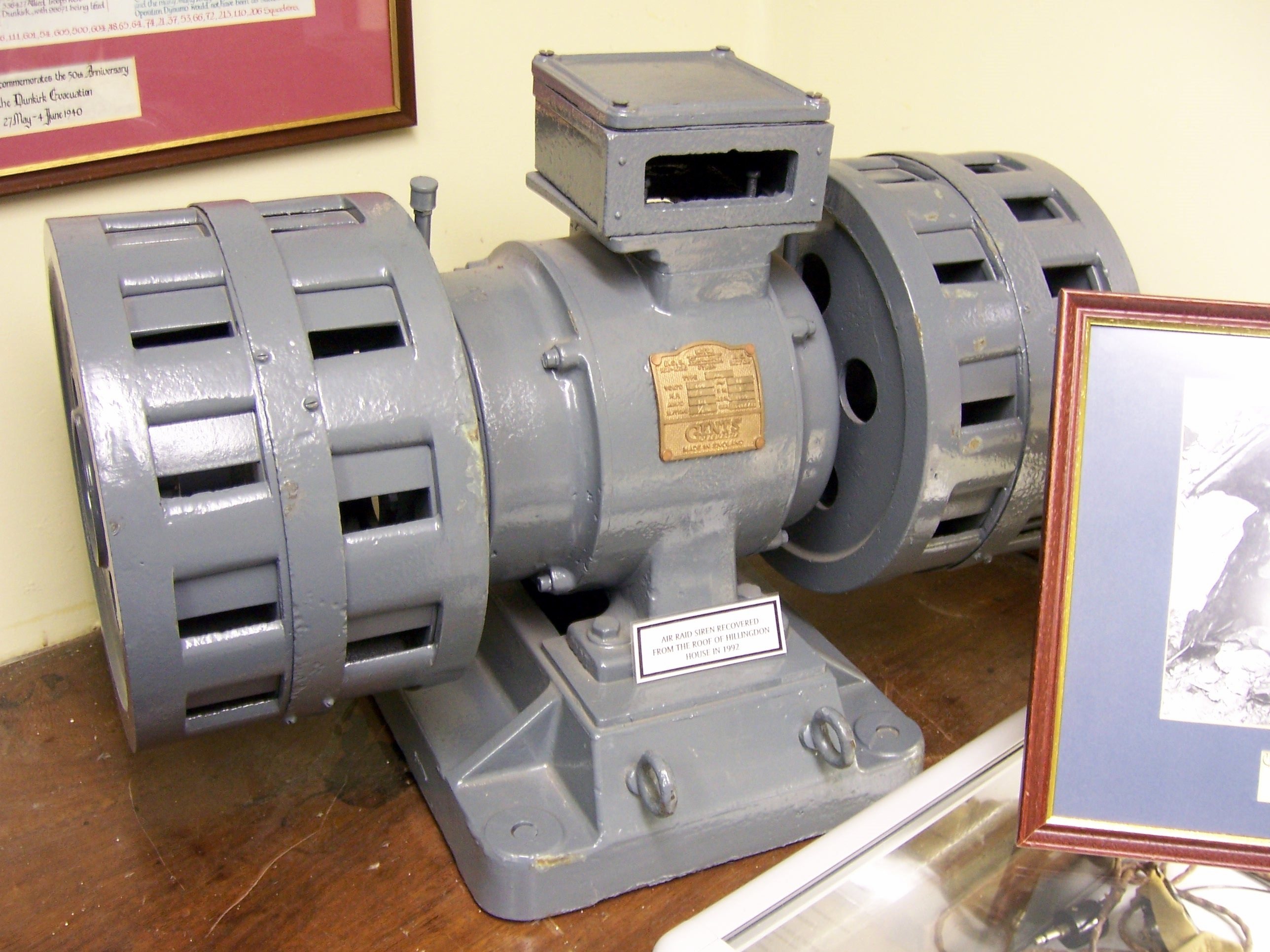 A Second World War air raid siren, removed from the roof of Hillingdon House in RAF Uxbridge in 1992.